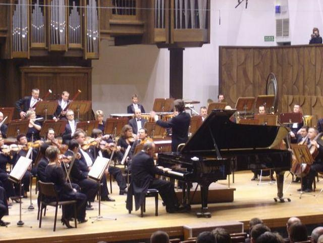 @concert